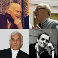 Four conductors associated with the Royal Philharmonic Orchestra. Menuhin and Mackerras: Ashkenazy and Dutoit.